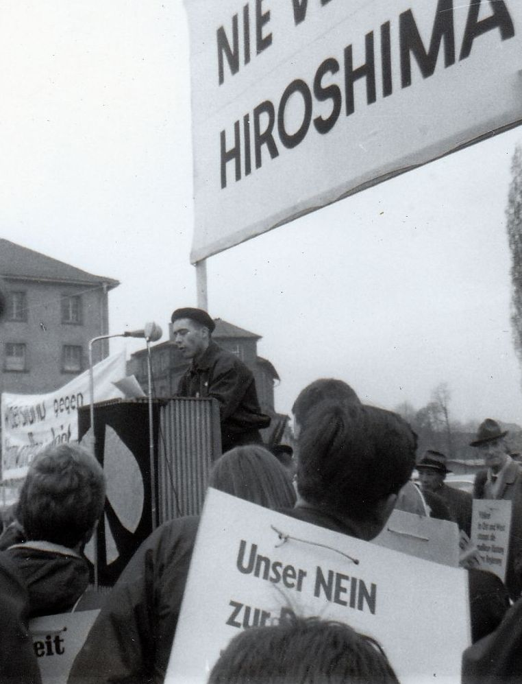 Klaus Vack als Redner bei einem der ersten hessischen Ostermärsche in den frühen 1960er Jahren.